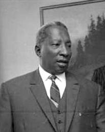 Mahamane Alassane Haidara, chairman of the National Assembly of Mali (1960-1968)